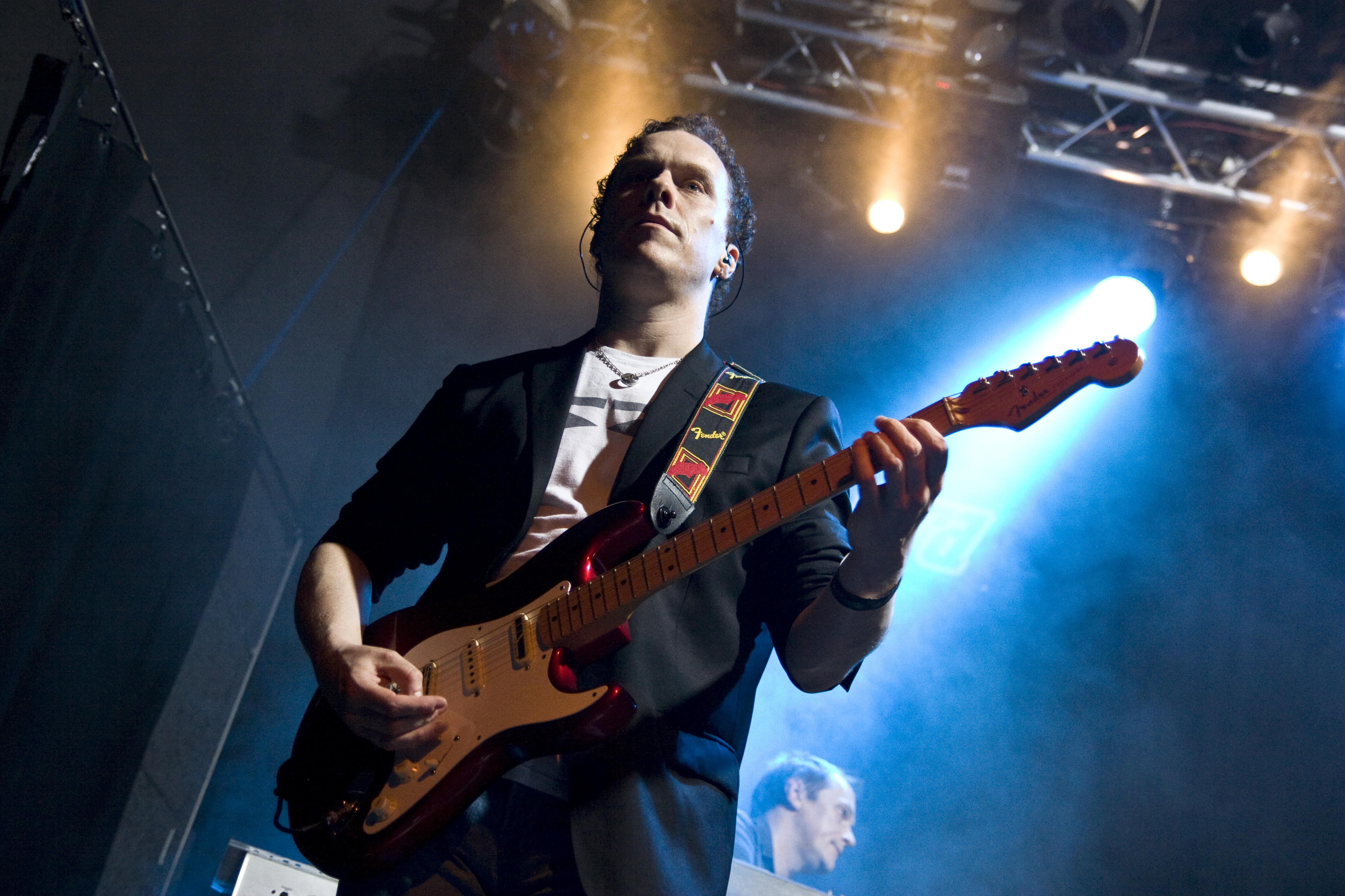 Daniel Cavanagh (Anathema guitarist) in concert in Barcelona, Spain.